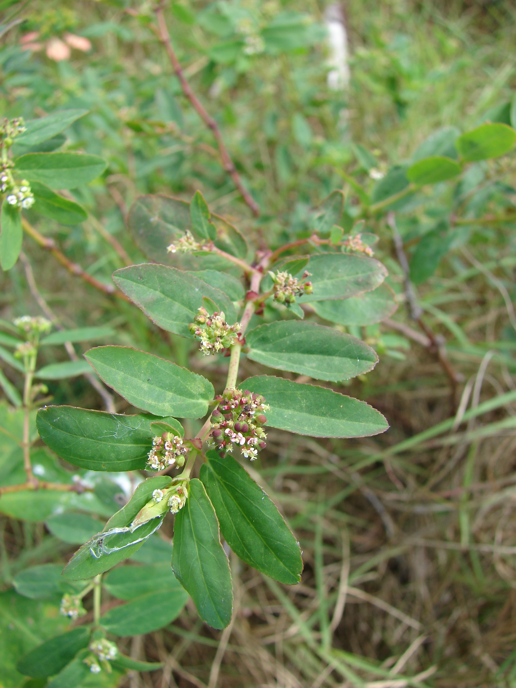 Chamaesyce hypericifolia (leaves flowers and fruit). Location: Midway Atoll, Radar hill field Sand Island